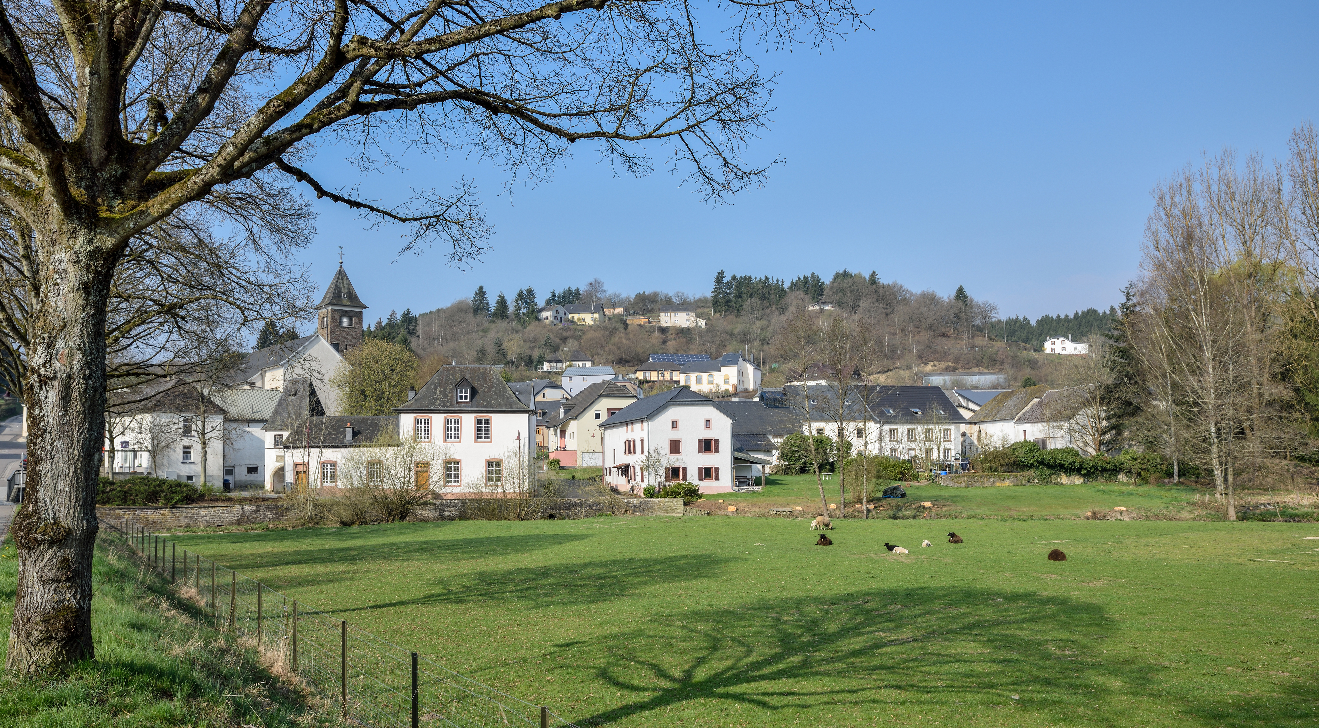 Wilwerwiltz, commune of Kiischpelt, Luxembourg, from C.R. 331.